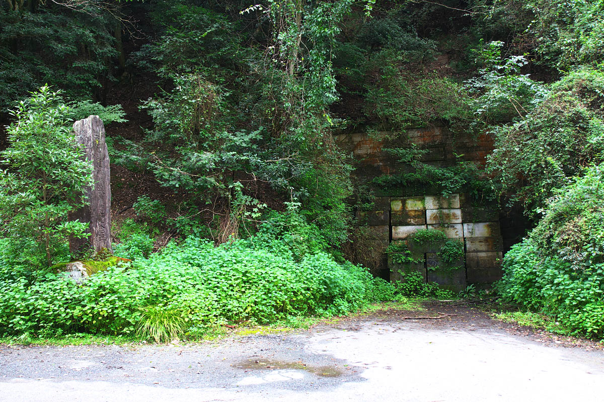 The old Inunaki Tunnel in Miyawaka, Fukuoka Prefecture